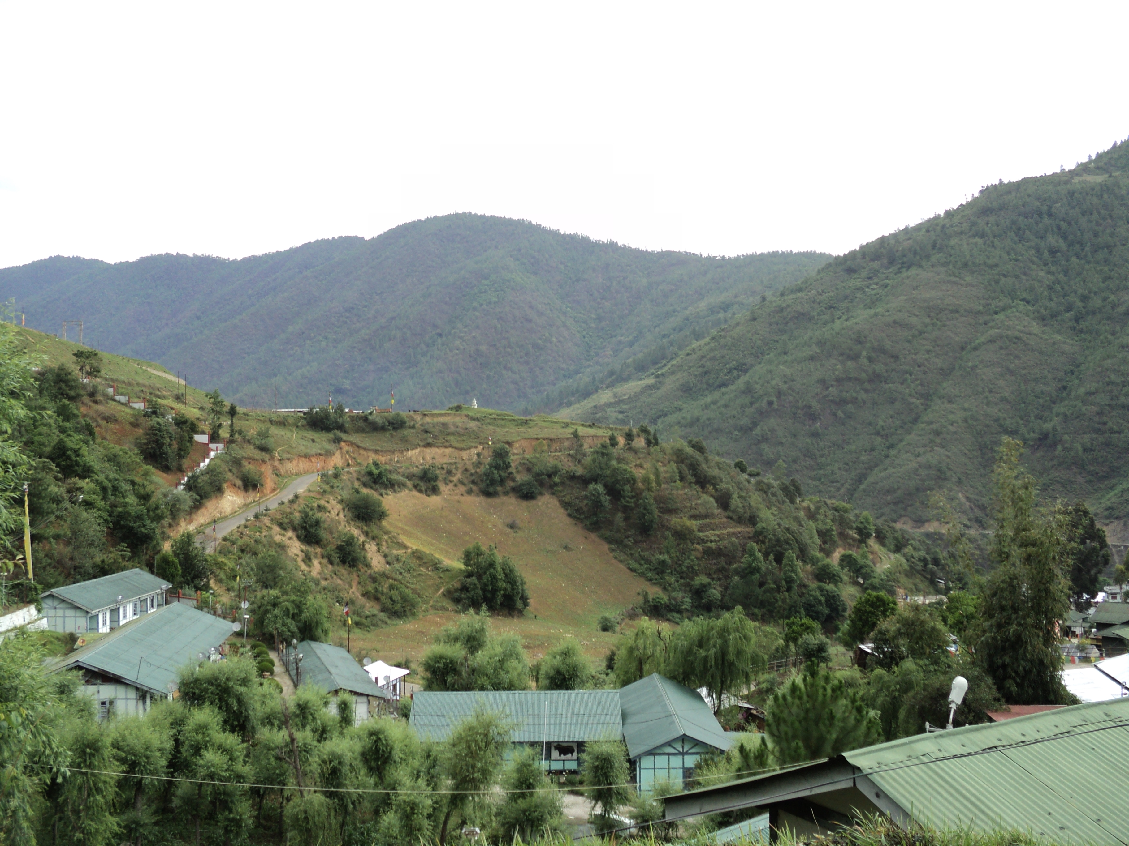 Small place Dirang while going to Tawang